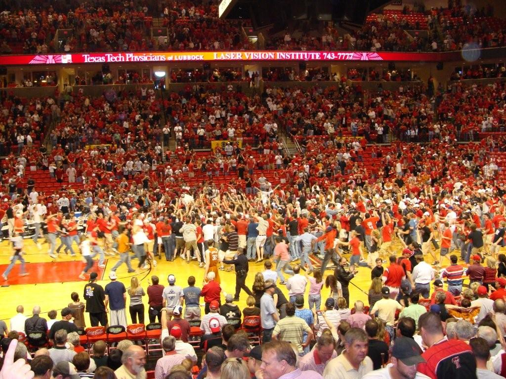 Texas Tech students and fans rushing the court after the Red Raiders upset the Texas Longhorns, 83–80 at United Spirit Arena in Lubbock, Texas on March 1, 2008.